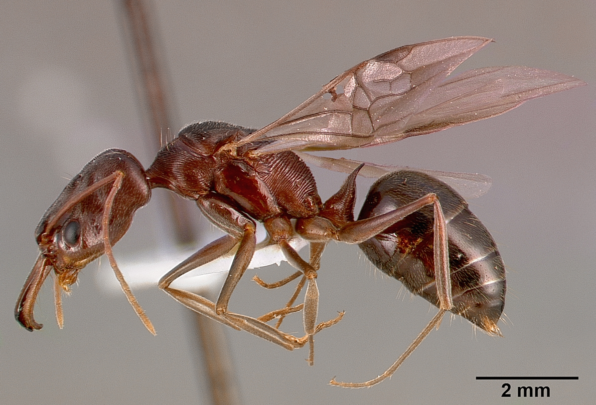 Profile view of ant Odontomachus troglodytes specimen sam-hym-c000745a.